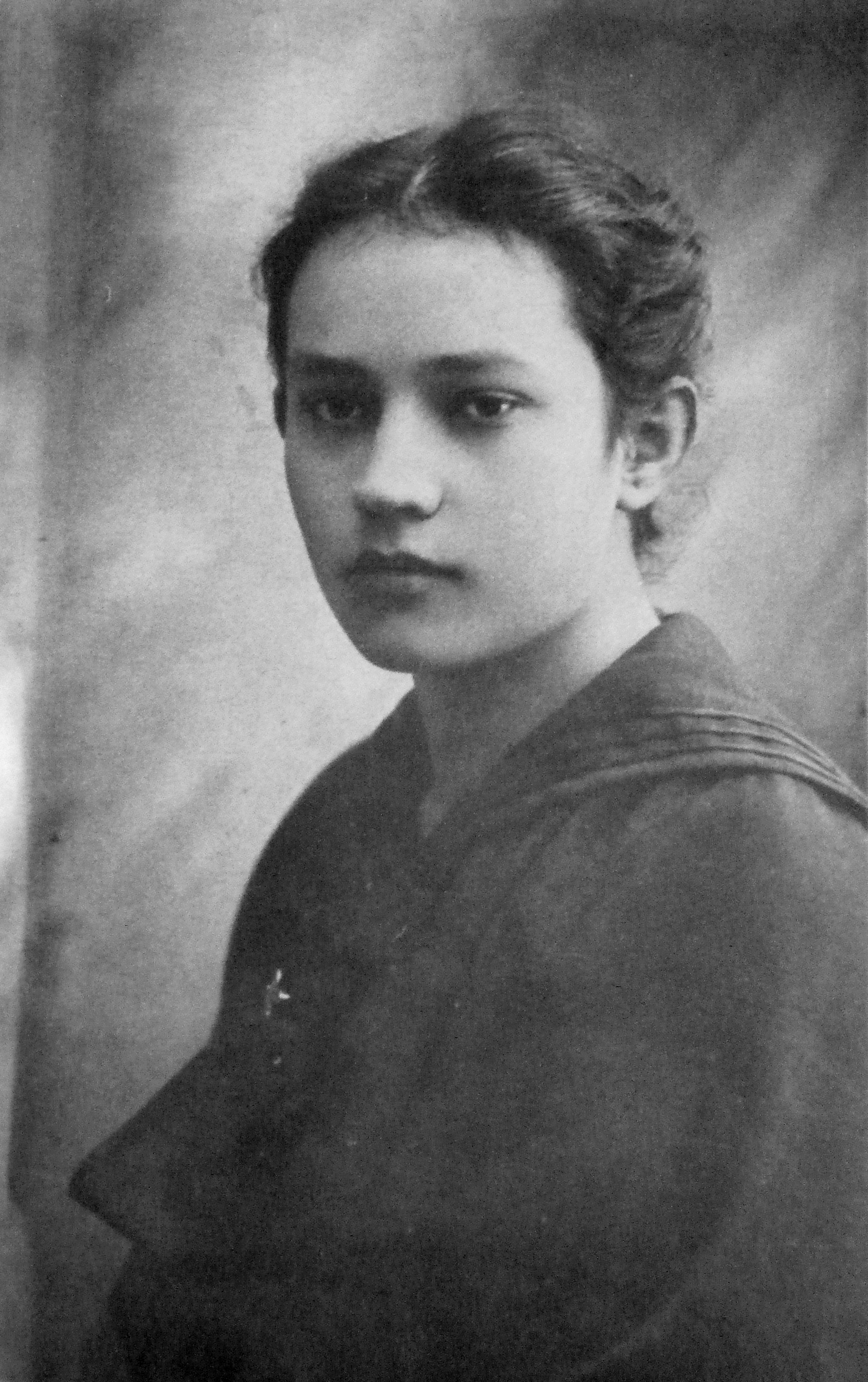 Maria Vetulani, Polish woman soldier, who fought in Battle of Lwów (1918) and Warsaw Uprising (1944).